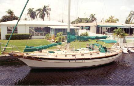 (Myself, Cabo Rico 38, I am releasing into public domain)